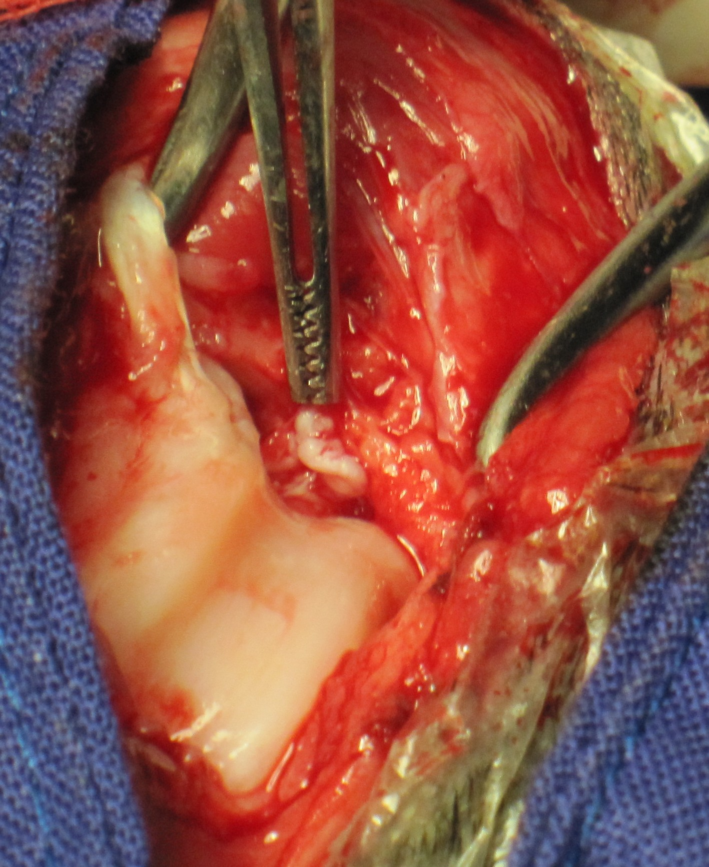 ruptured cranial cruciate ligament in a dog